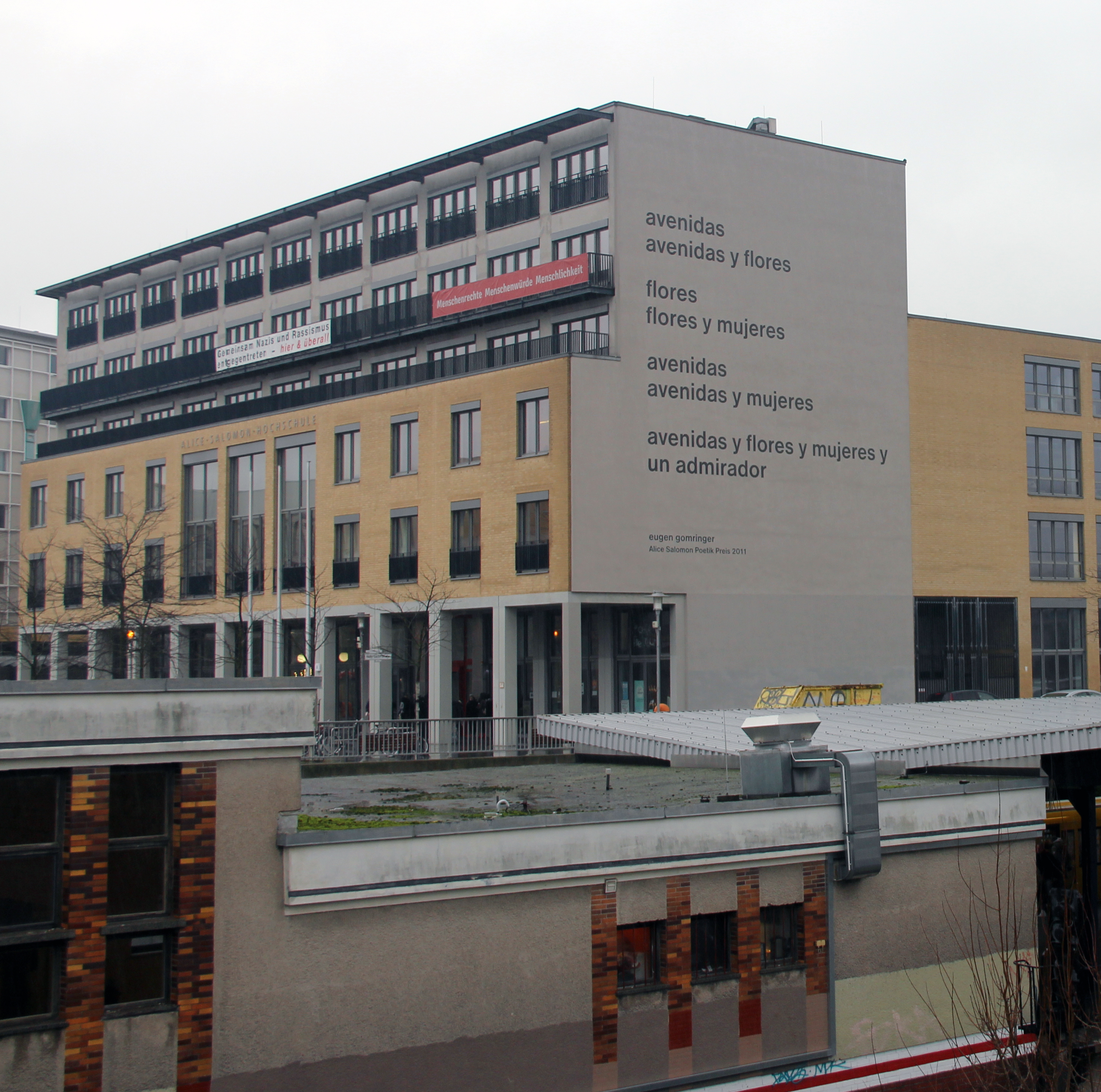 Murals, "avenidas" by Eugen Gomringer, 2011, Alice-Salomon-Platz 5, Berlin-Hellersdorf, Germany